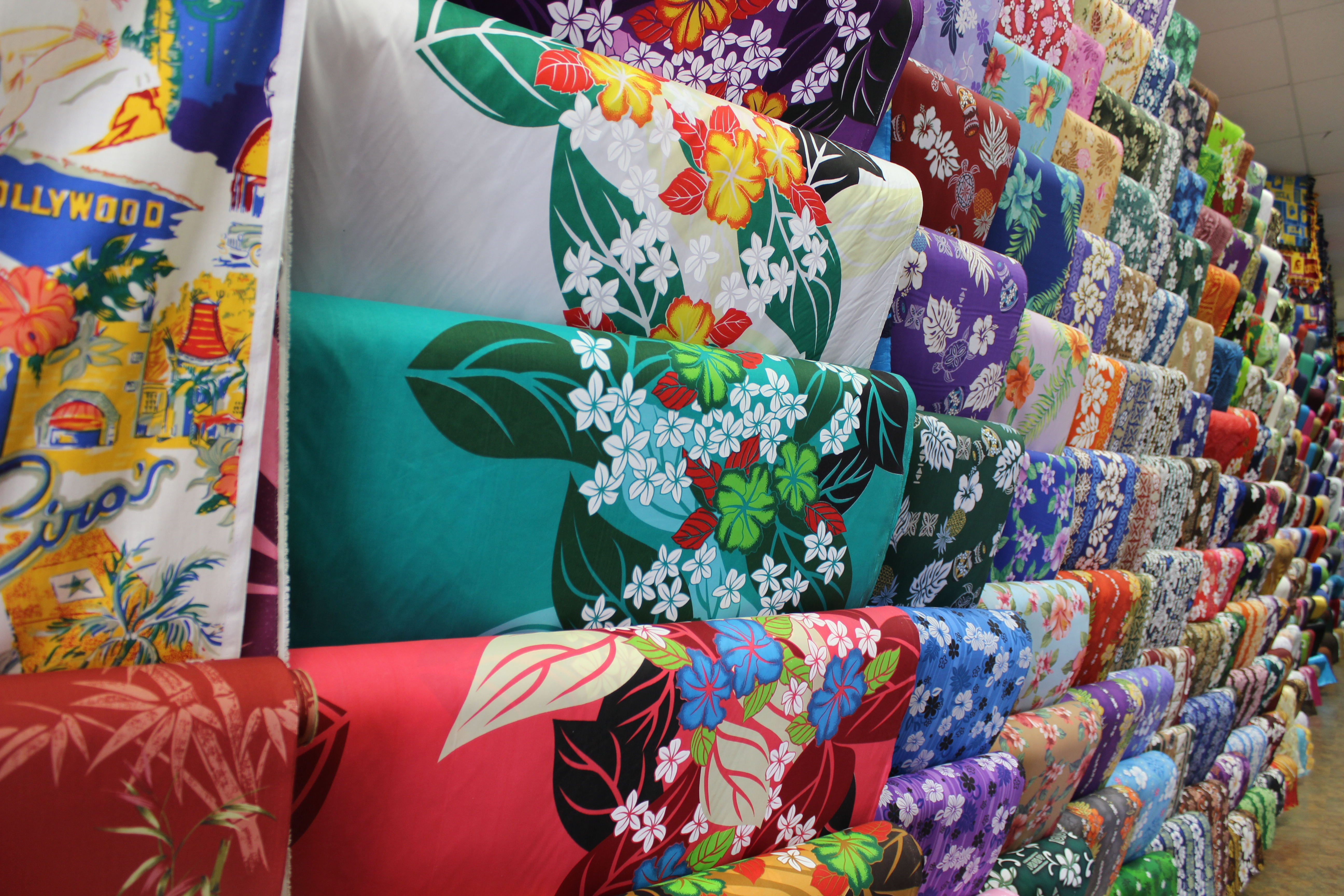 islands fabric , fabric, textile